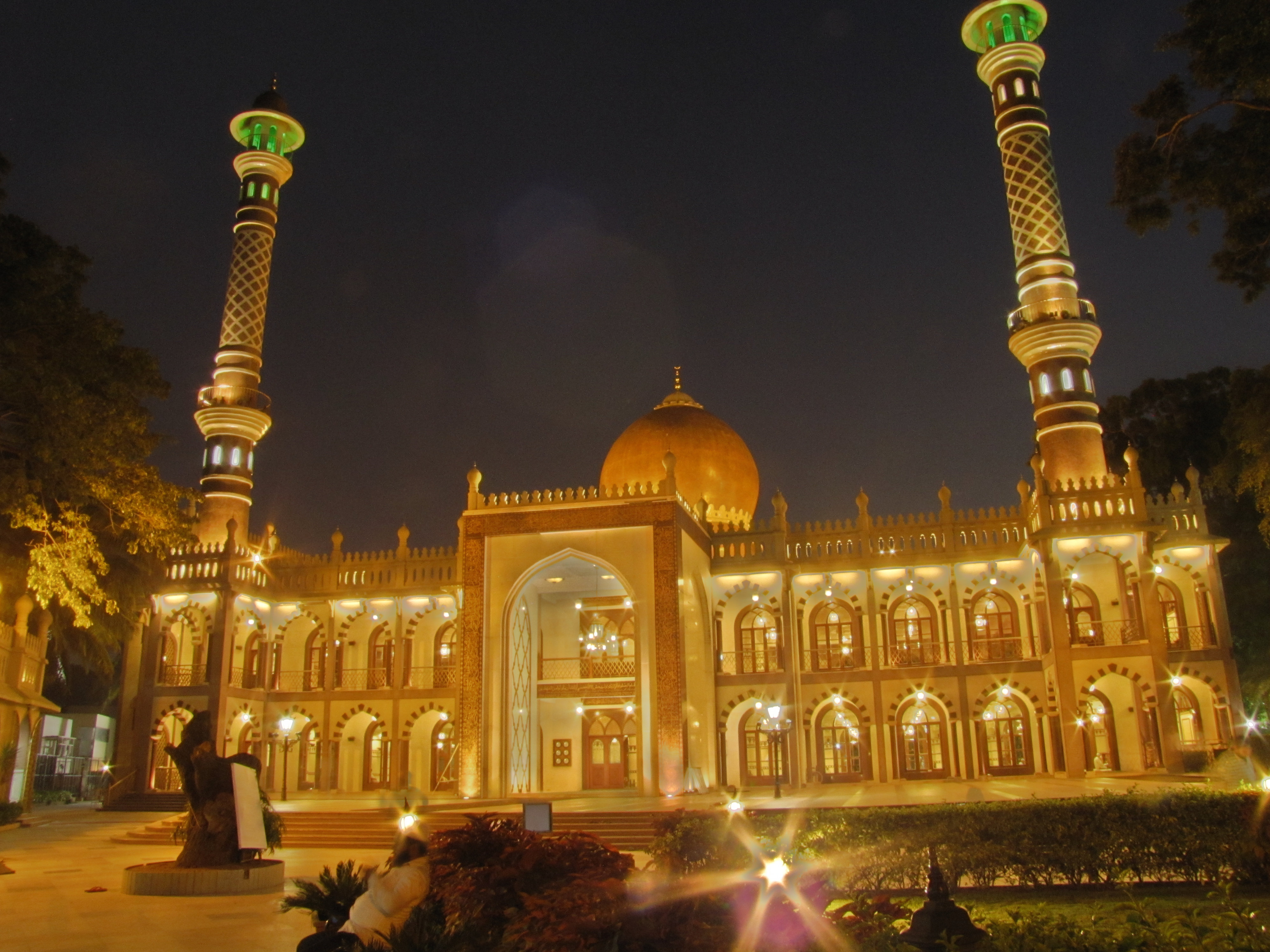 This is a famous mosque run by Jumma Masjid Trust Board situated at millers road, Bangalore, India